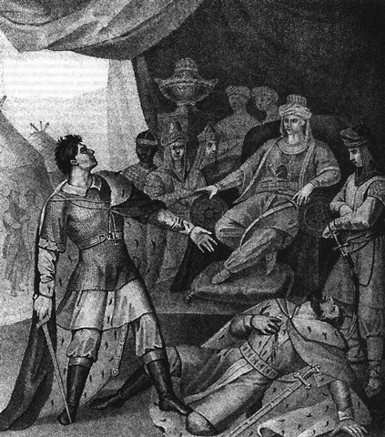 Dmitri revenges the death of his father, Mikhail of Tver